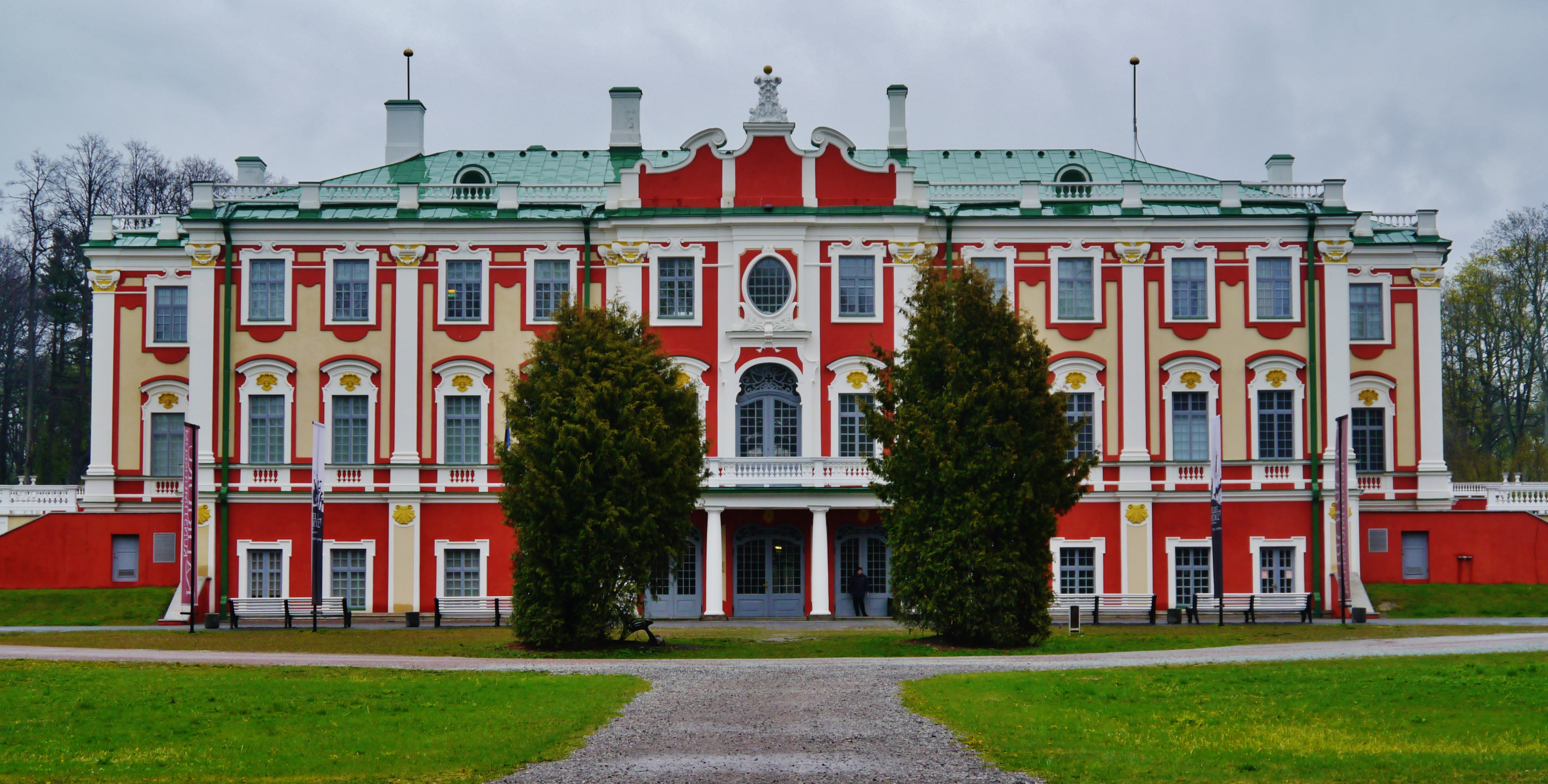 Kadriorg Palace, Tallinn, Estonia